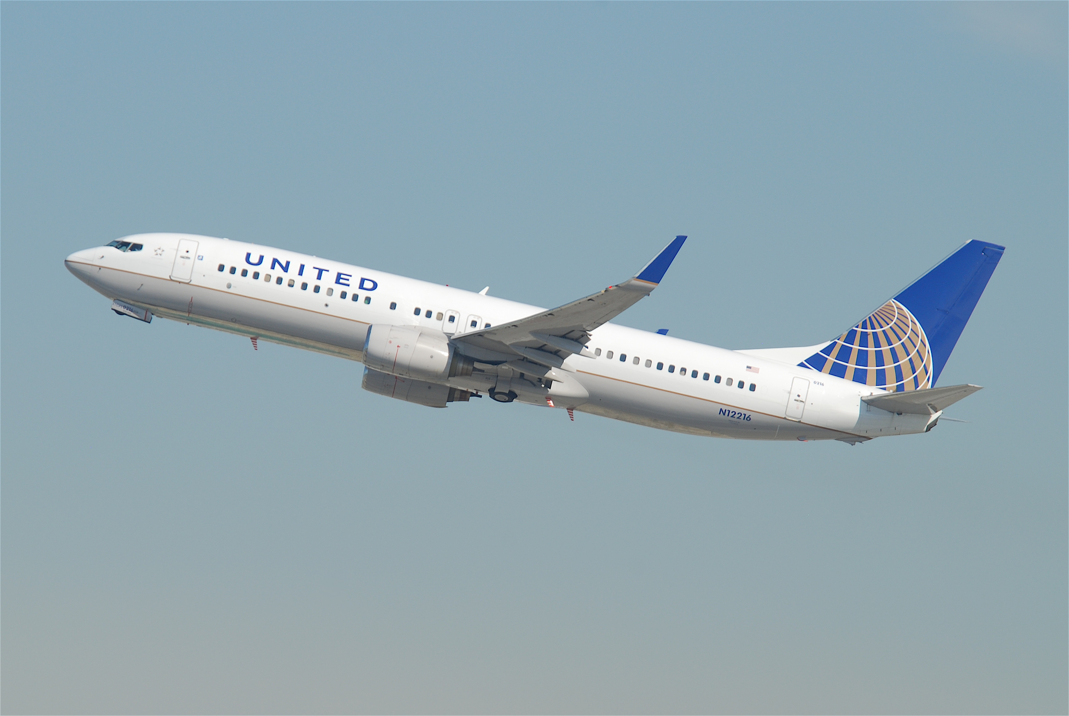 United Airlines Boeing 737-800; N12216@LAX;10.10.2011/622ge